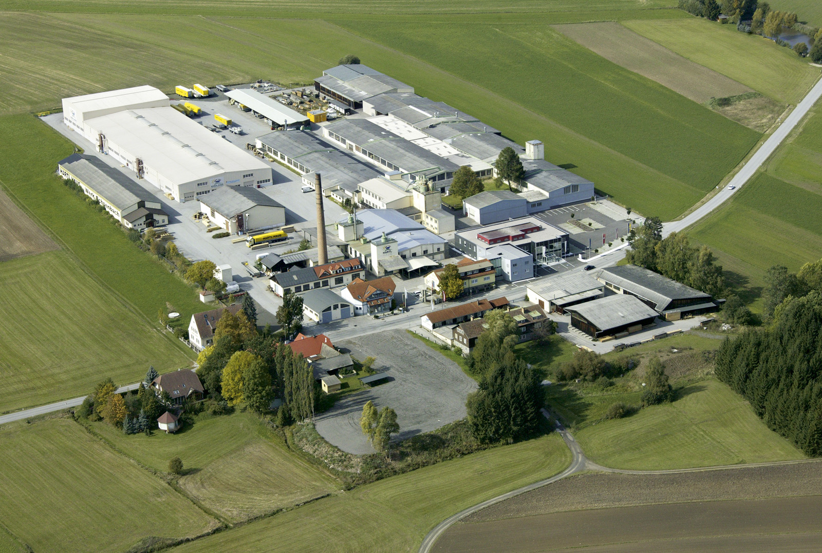 HARTL HAUS factory aerial photograph